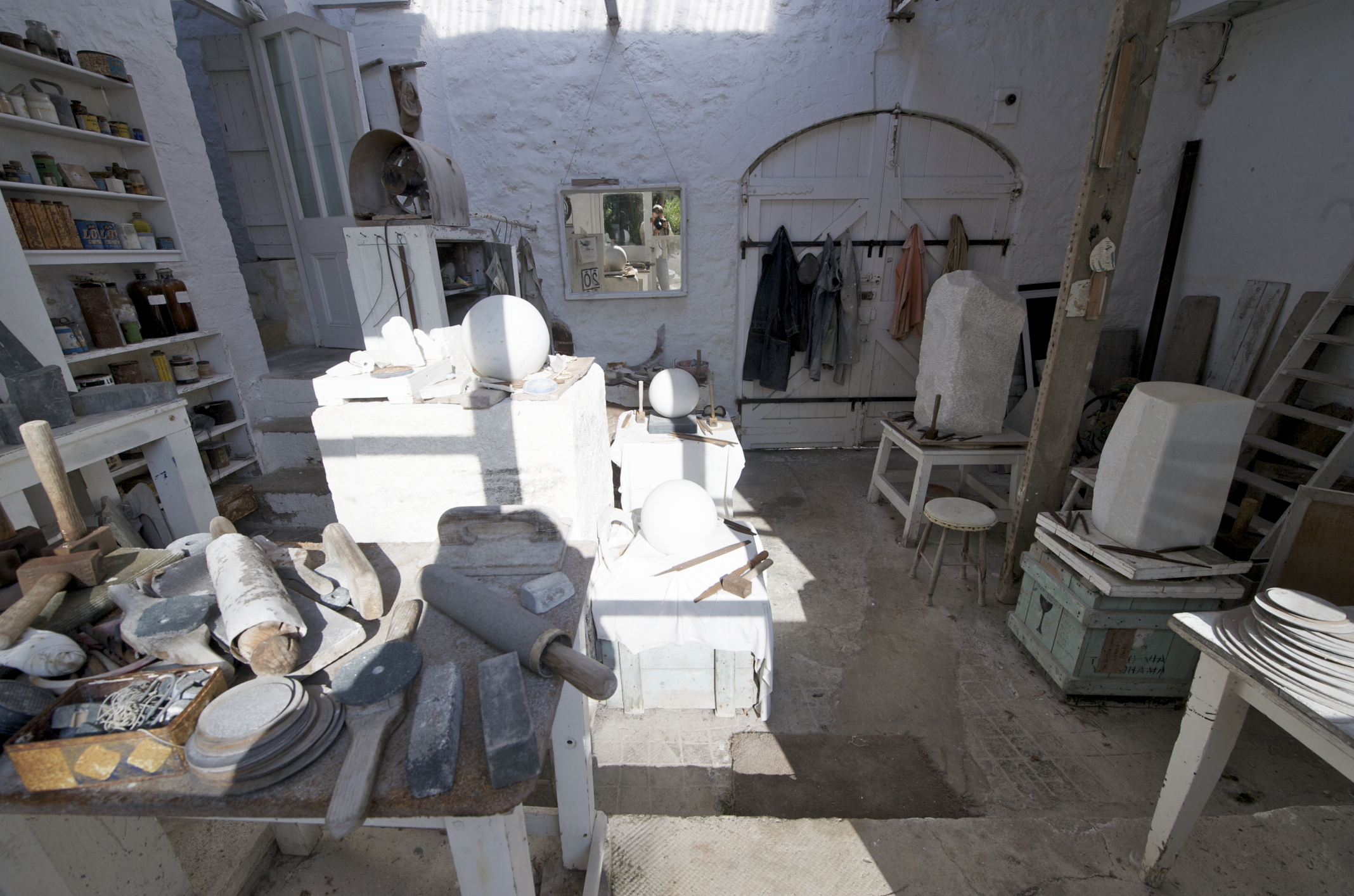 Barbara Hepworth Studio Garden